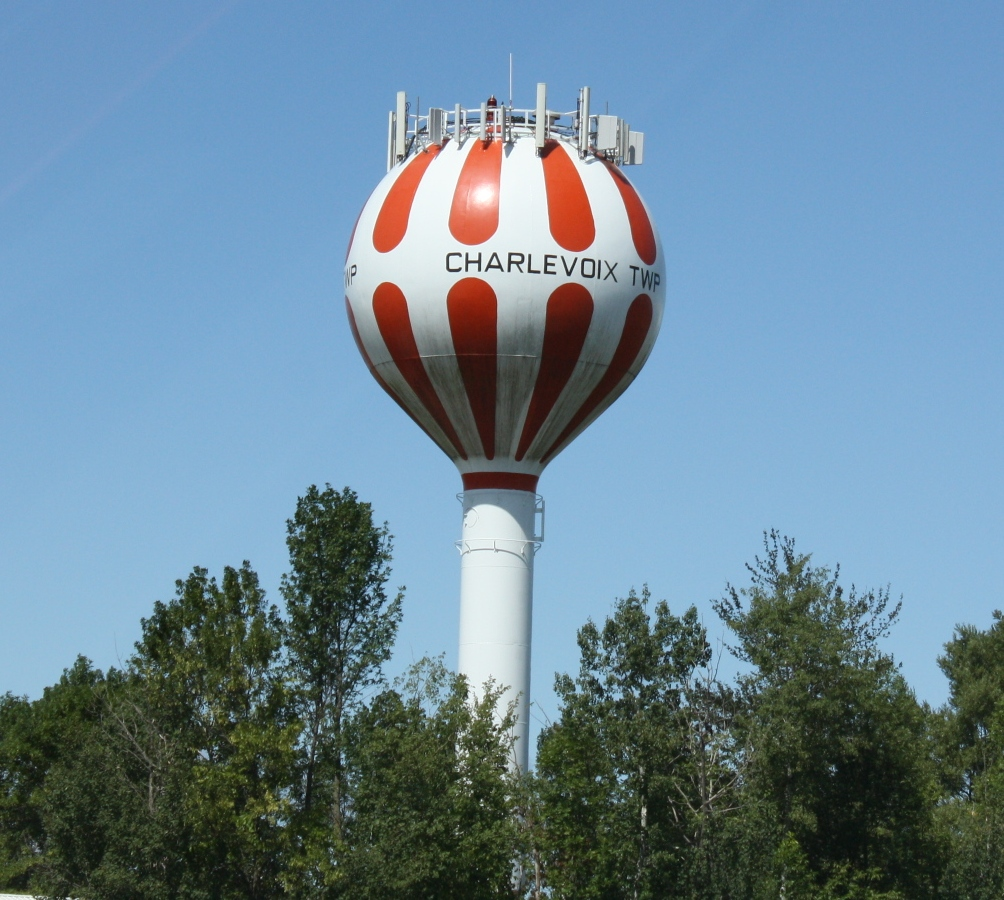 The water tower for Charlevoix Township, Michigan on U.S. Route 31.